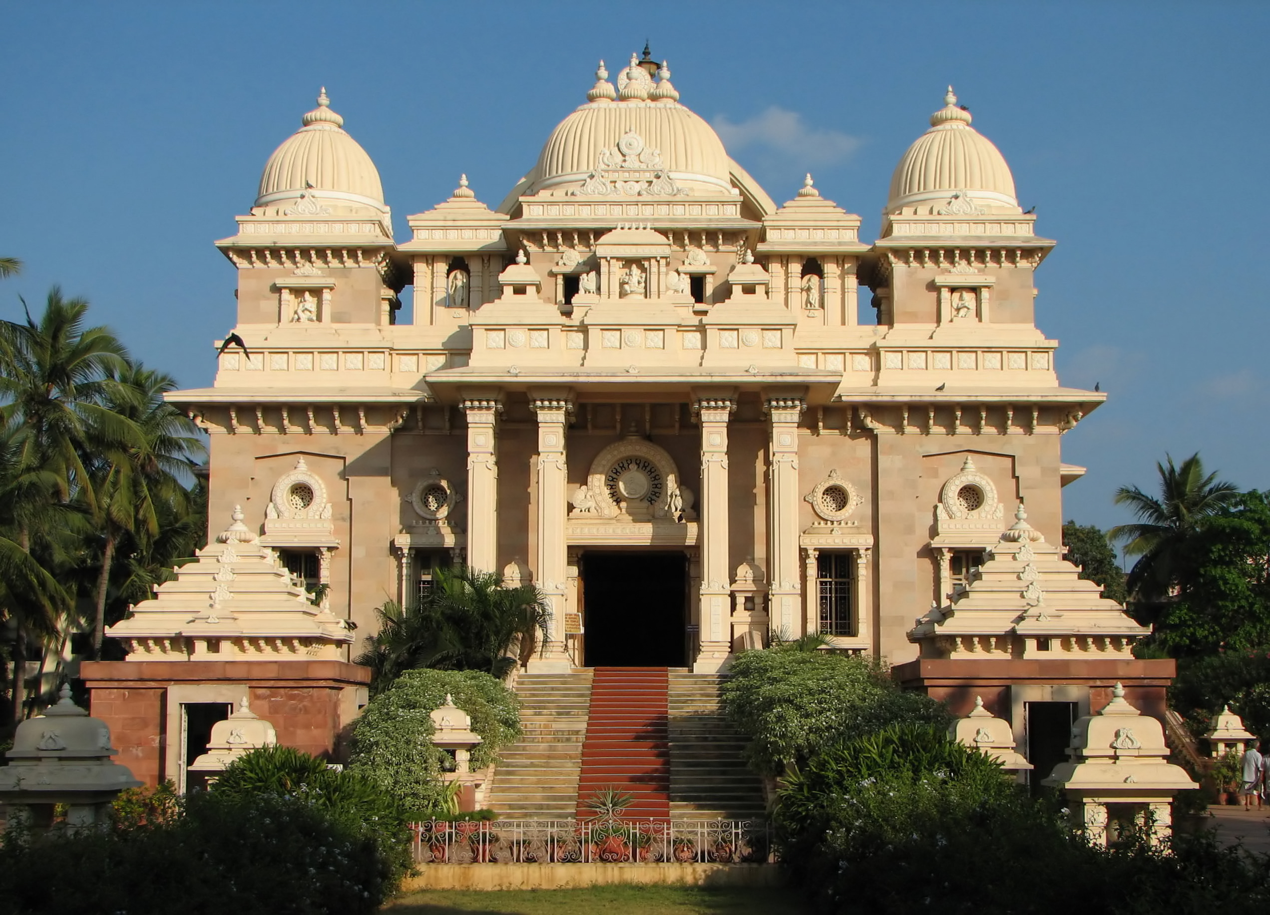 The Universal Temple at the Ramakrishna Mission in Mylapore, Chennai, India